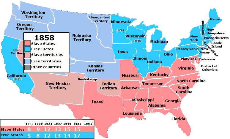 Map showing which areas of the United States did and did not allow slavery in 1858. Territories and states which had not specifically banned slavery are colored red/pink.